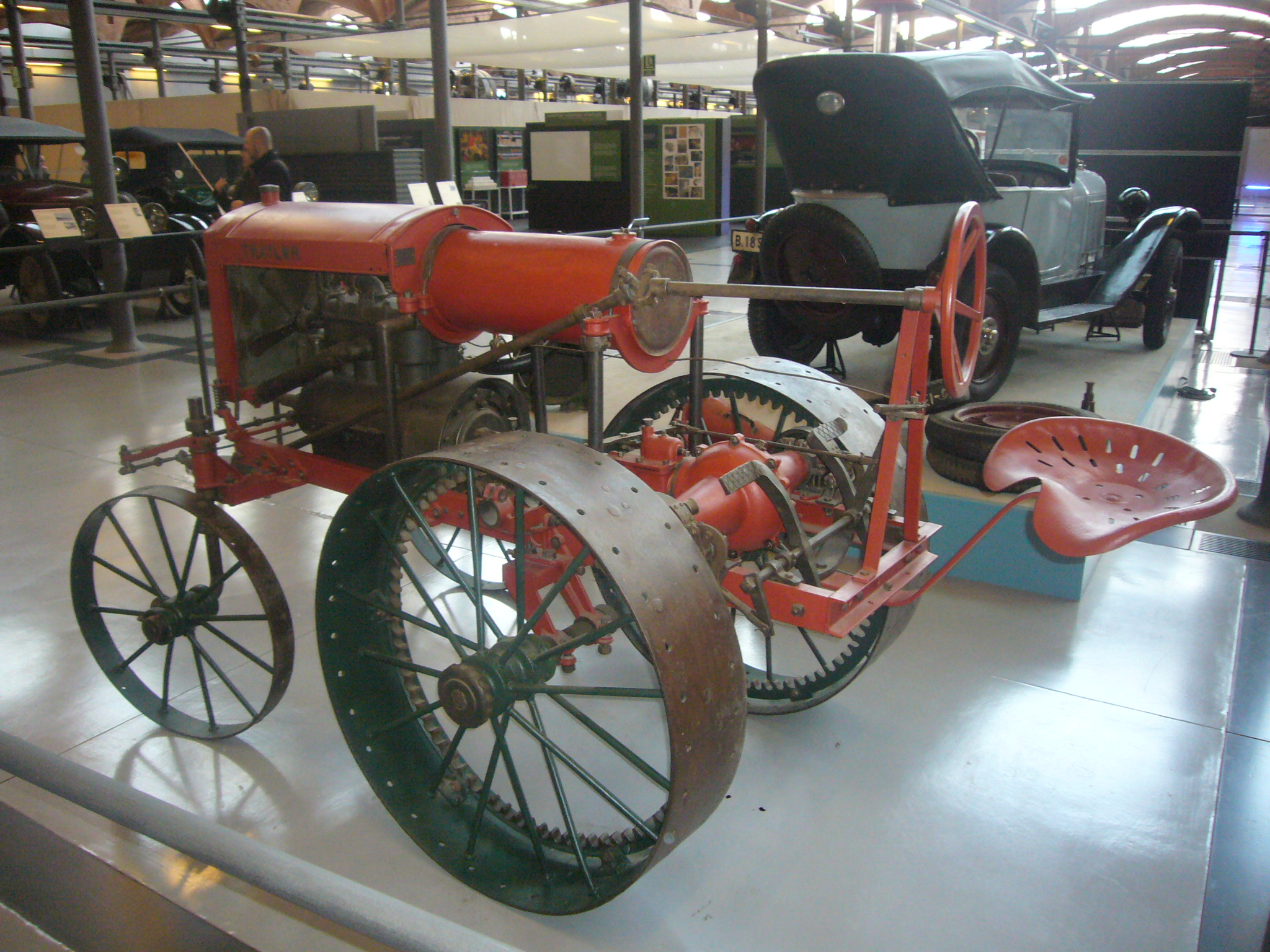 Traylor 6-12 tractor, built 1920-1928, with LeRoi 4 cyl. engine, at the mNATEC, Terrassa, (Catalunya).